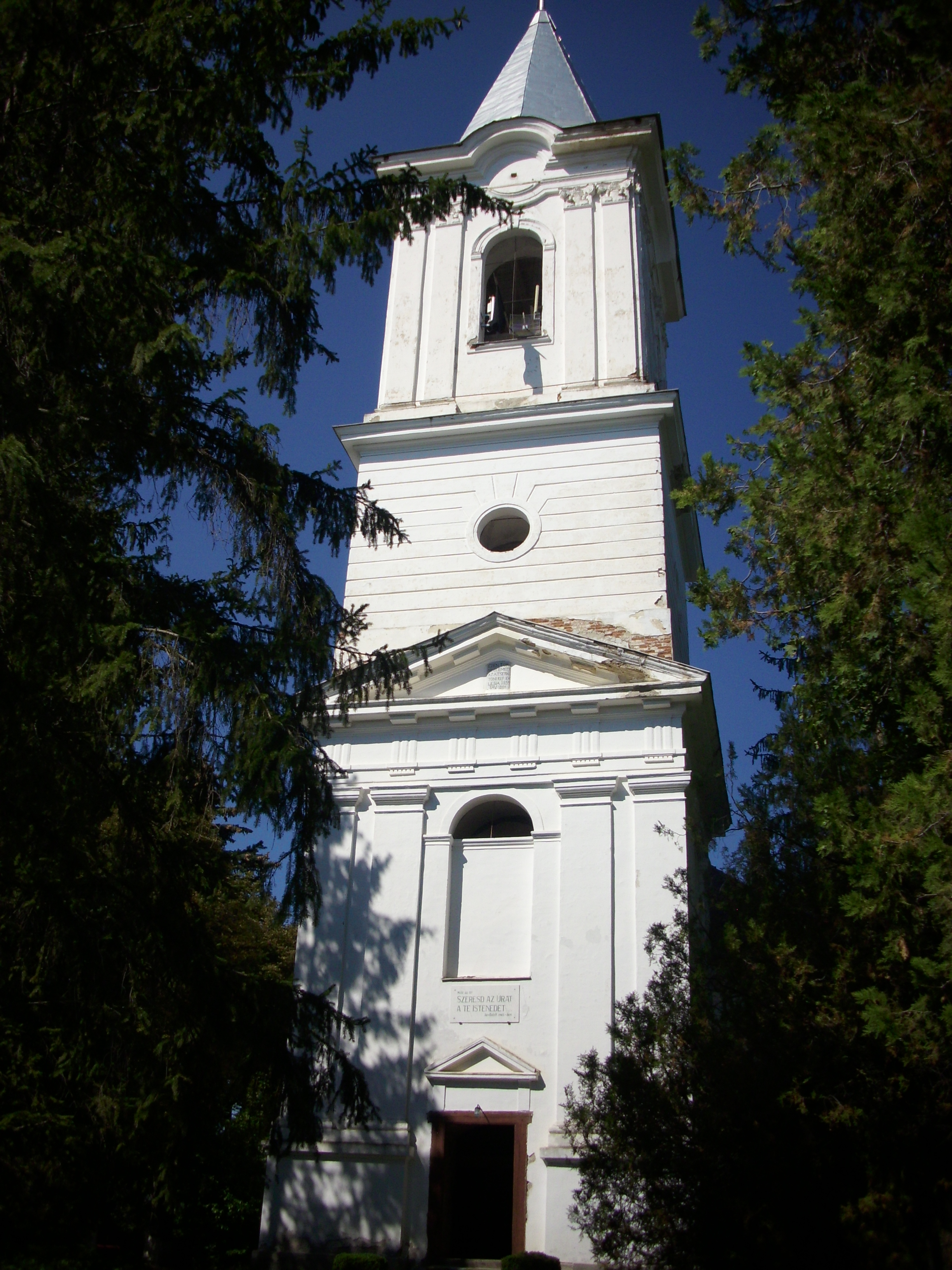 It's a bell tower constructed in 1727 and reconstructed in 1825. This picture was taken in 2013 september 03